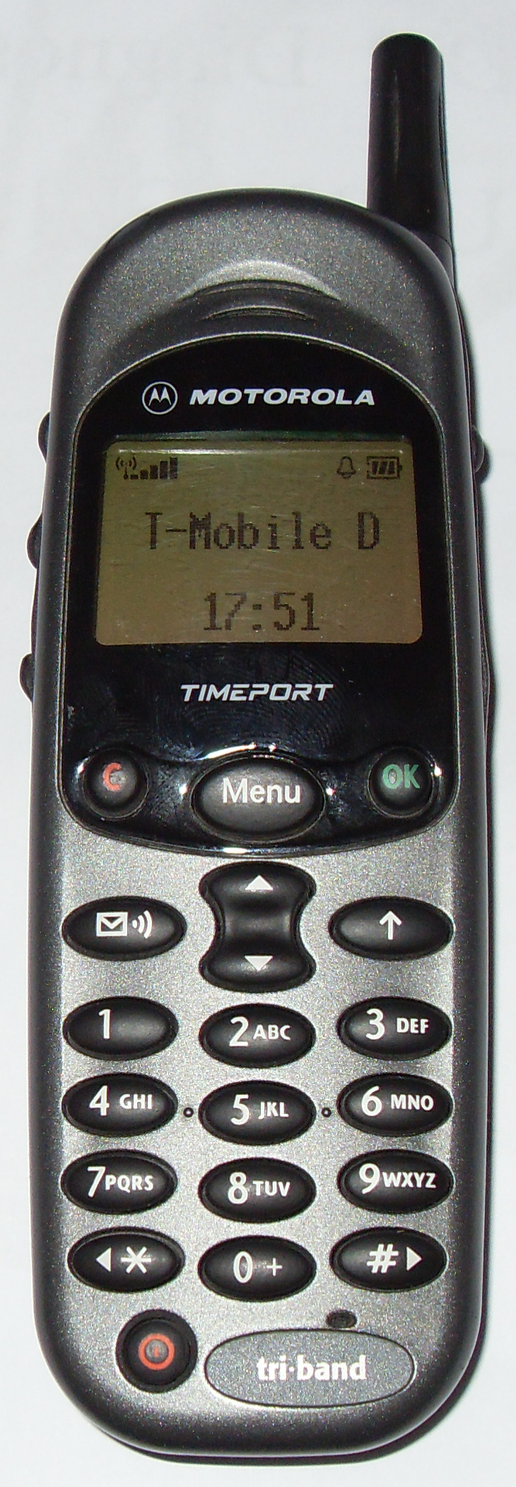 Motorola Timeport in grey